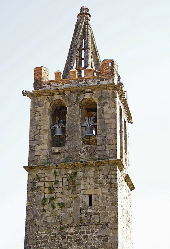 Iglesia del Salvador